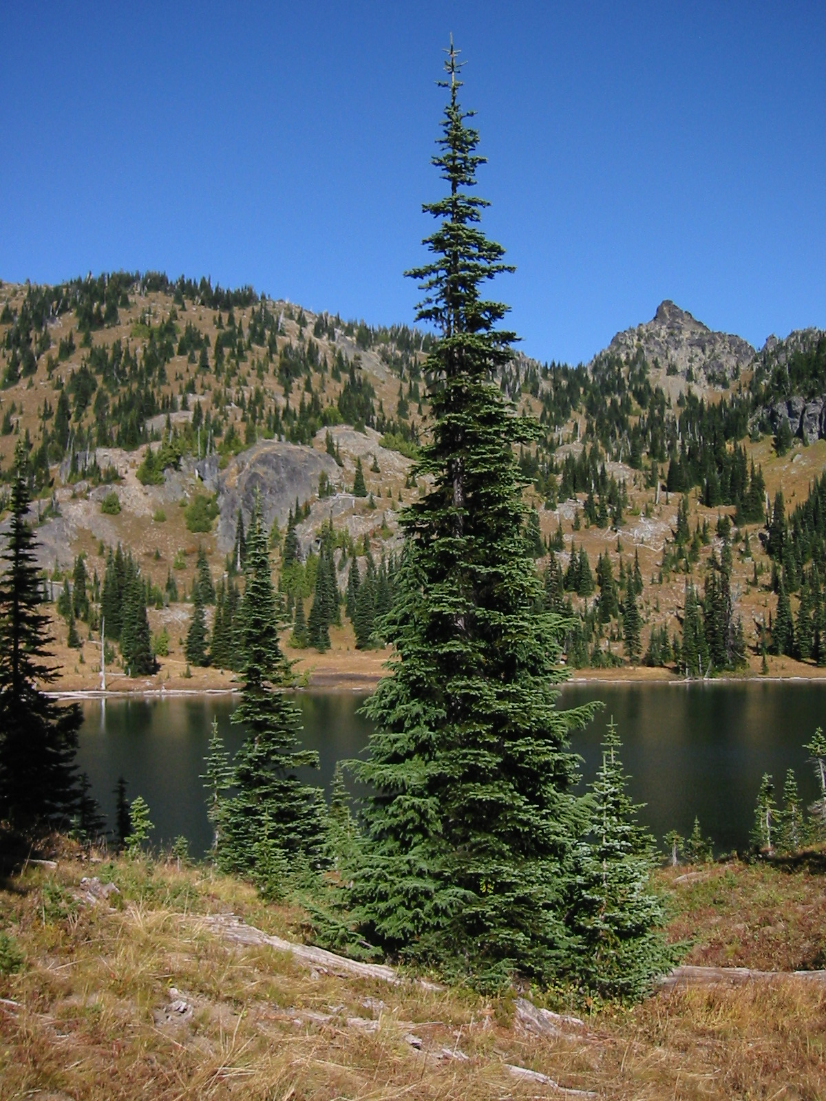 Subalpine Fir with Crystal Lake and glacier smoothed rock bluffs behind. Pt. 6796' is right of center. Subalpinue zone